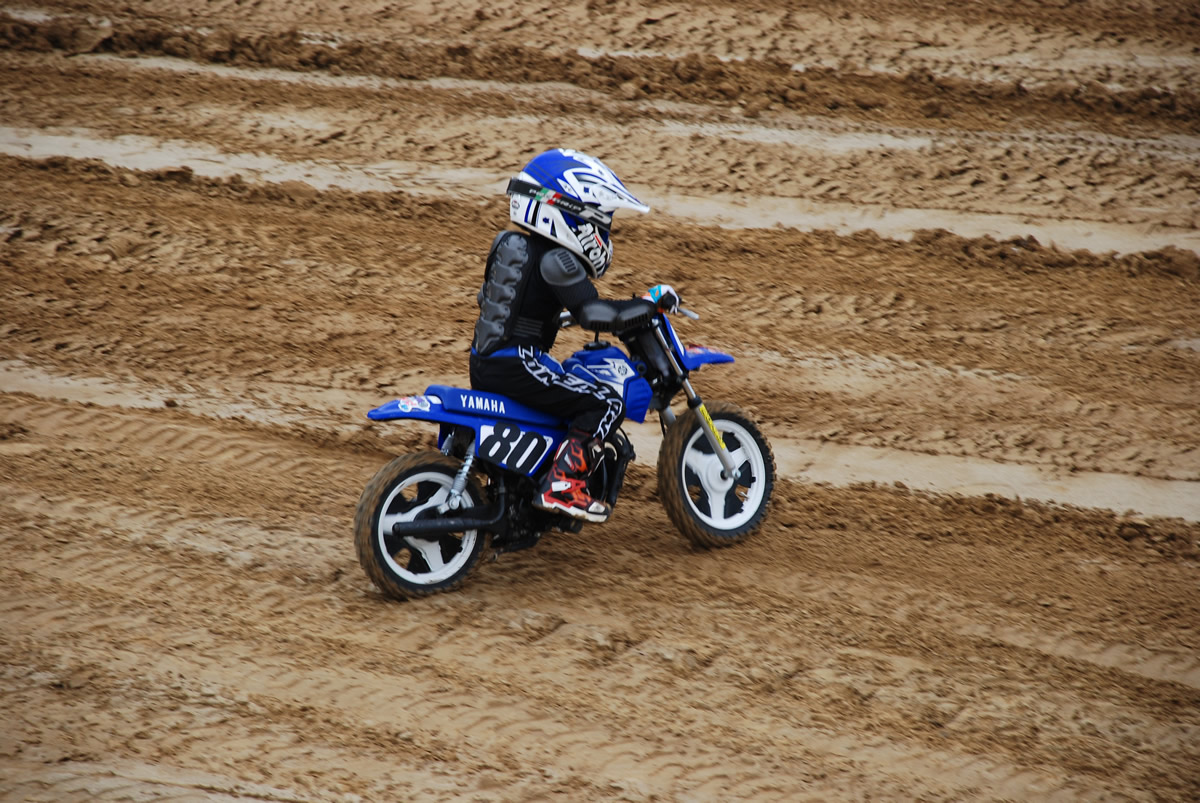 a small kids learner motorcycle Yamaha PW50